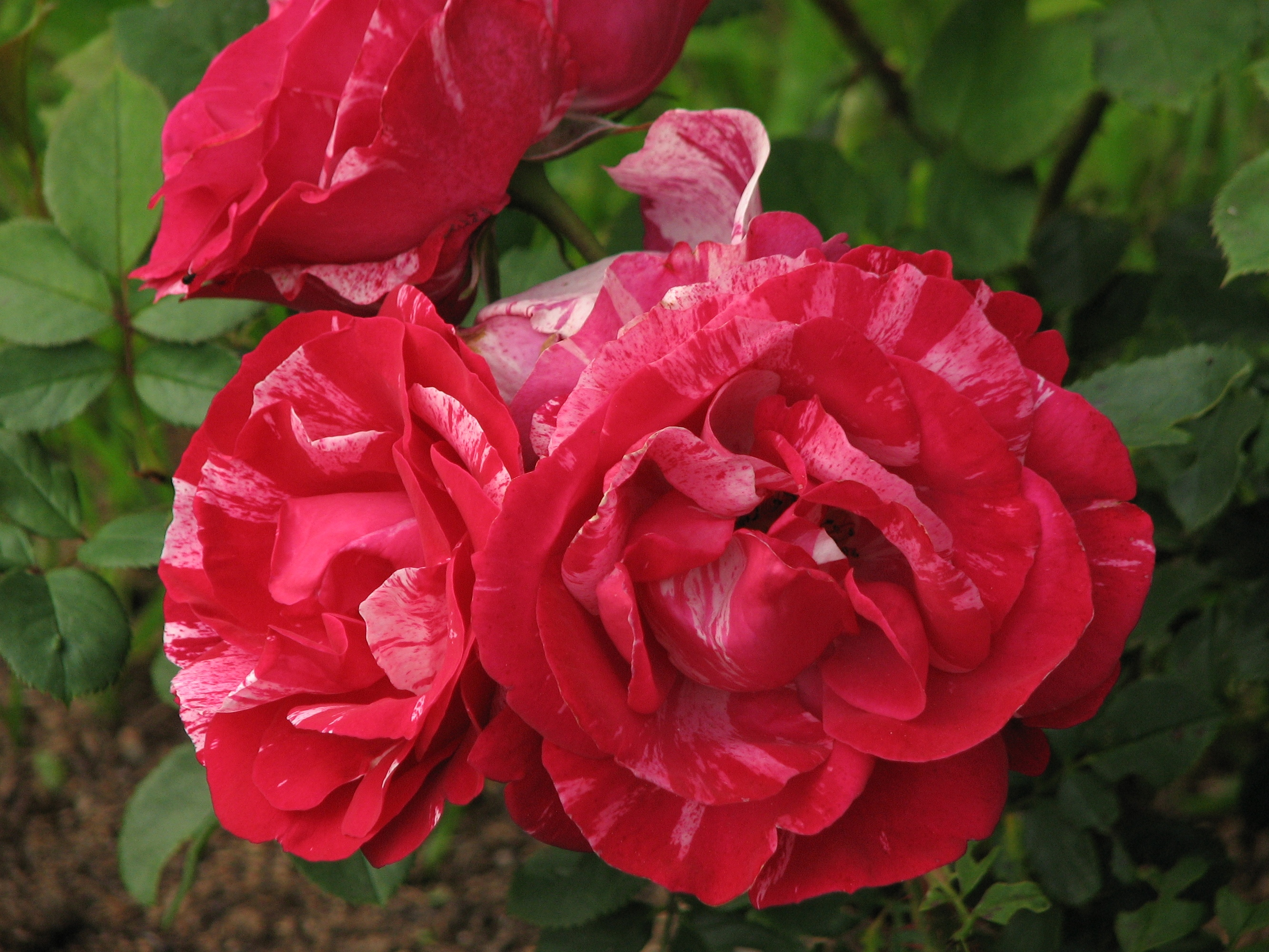 Rosa 'Henri Matisse' (Delbard, 1995). From the collection of the Main Botanical Garden of Academy of Sciences in Moscow (Rosarium).